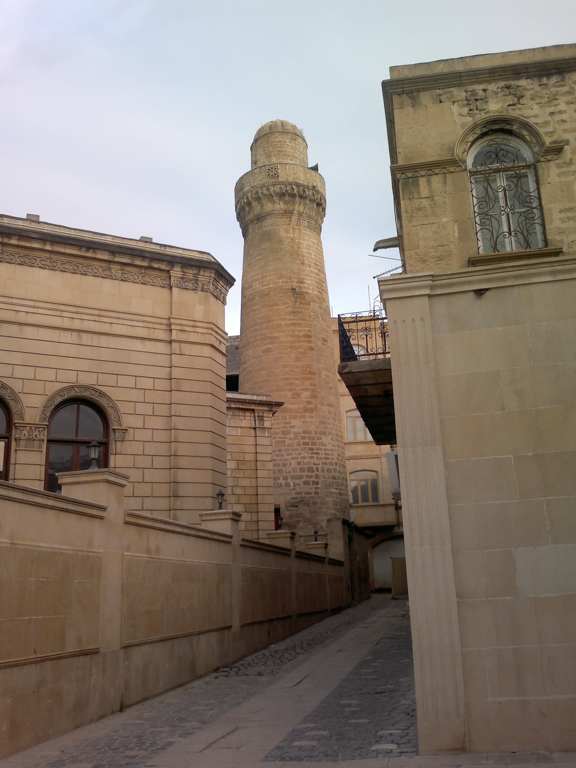 Juma Mosque in Baku. Built by Haji Sheykhali Dadashov in 1899. Minaret was built in 1437.